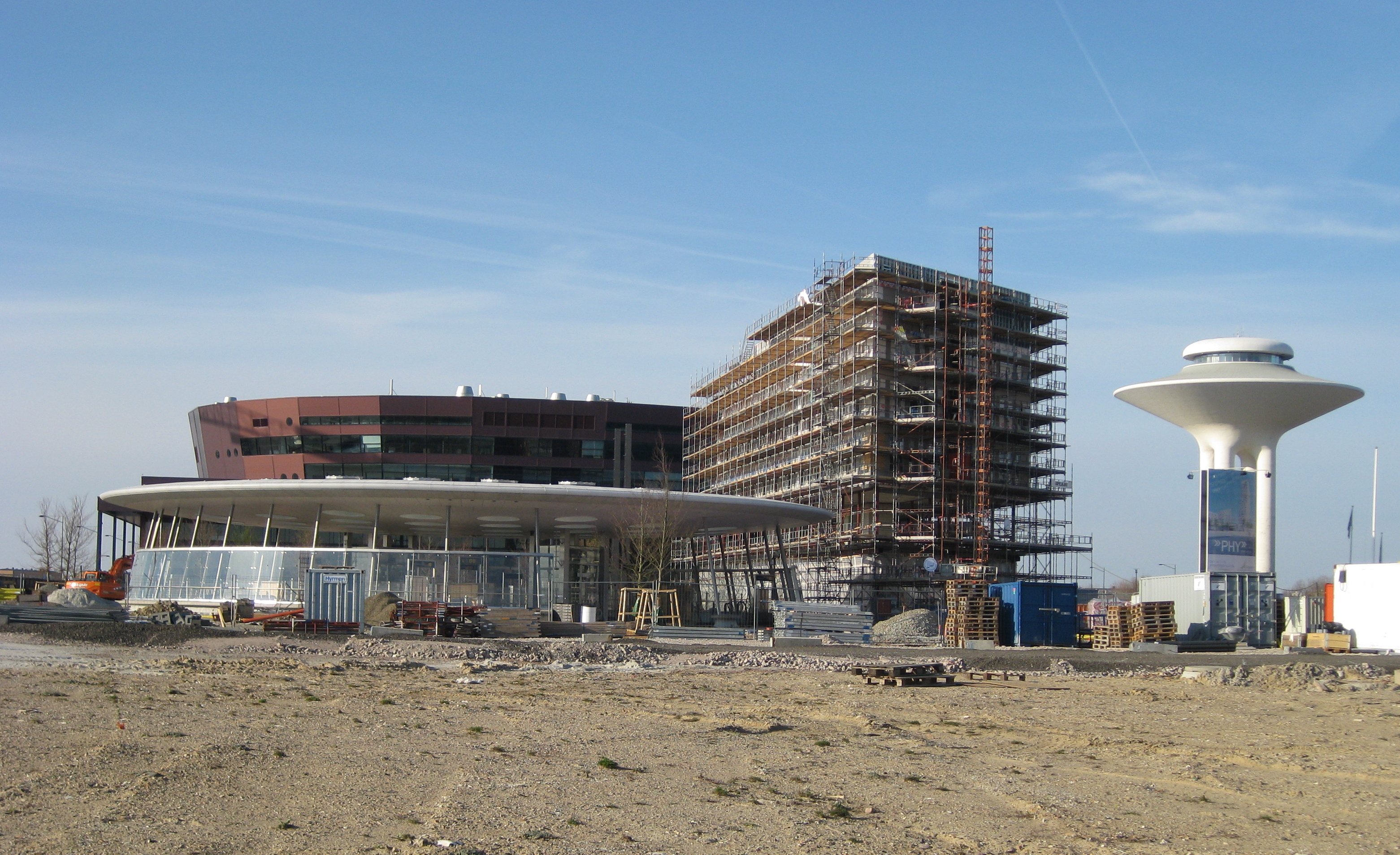 The entrance to the subterrestial railway station at Hyllie, Malmö, being built.